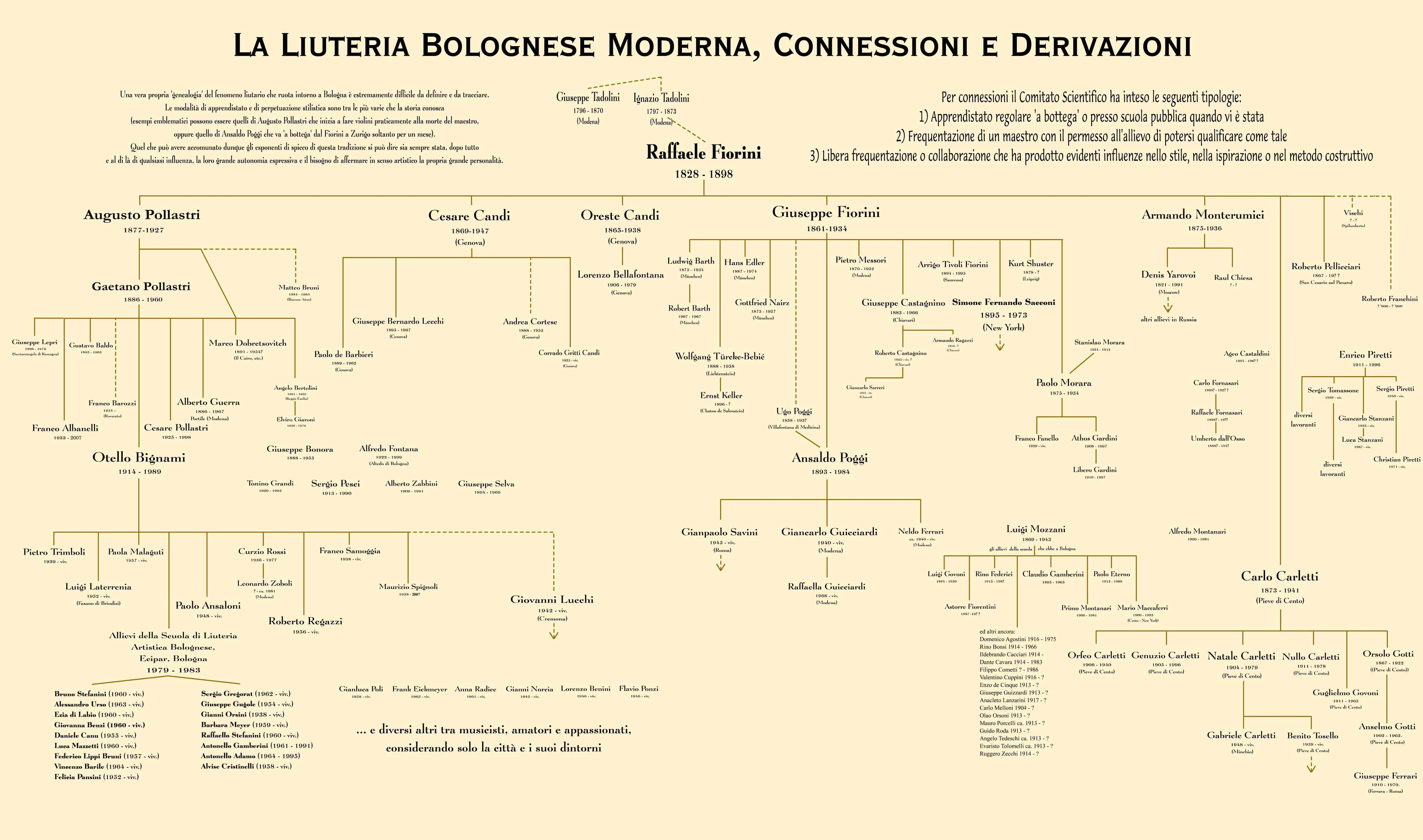 Panorama of Modern Bolognese Violin Making: Influences and Relationships, prepared by the Scientific Commettee of the exhibition "Il Suono di Bologna" held in Bologna at San Giorgio in Poggiale, Dec 2002. You can modify and freely use this image without changing its written contents. You have always to quote the Author.